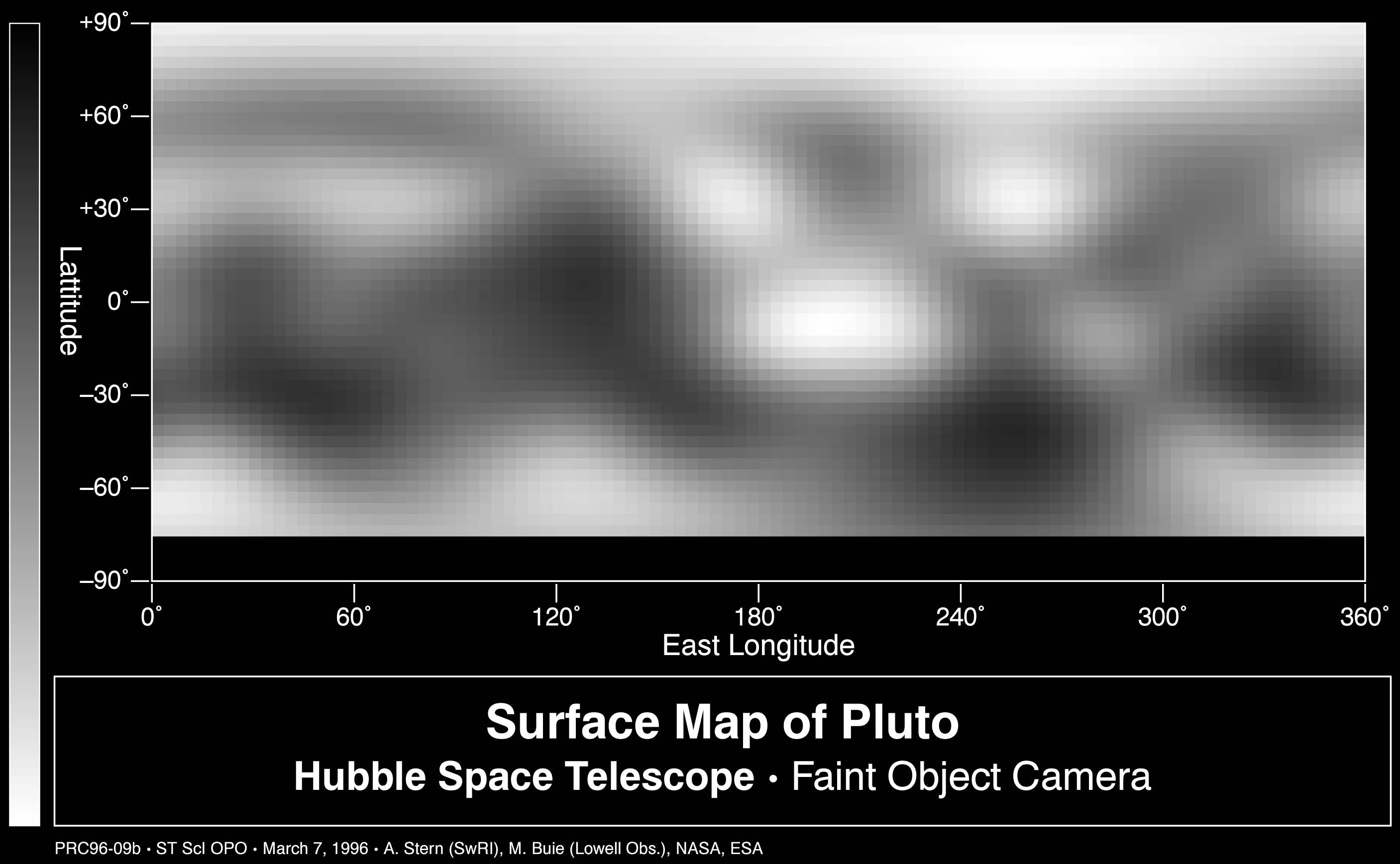 This is the first image-based surface map of Pluto. This map was assembled by computer image processing software from four separate images of Pluto's disk taken with the European Space Agency's (ESA) Faint Object Camera (FOC) aboard NASA's Hubble Space Telescope. Hubble imaged nearly the entire surface, as Pluto rotated on its axis in late June and early July 1994. The map, which covers 85% of the planet's surface, confirms that Pluto has a dark equatorial belt and bright polar caps, as inferred from ground-based light curves obtained during the mutual eclipses that occurred between Pluto and its satellite Charon in the late 1980s. The brightness variations in this map may be due to topographic features such as basins and fresh impact craters. However, most of the surface features unveiled by Hubble are likely produced by the complex distribution of frosts that migrate across Pluto's surface with its orbital and seasonal cycles. Names may later be proposed for some of the larger regions. Image reconstruction techniques smooth out the coarse pixels in the four raw images to reveal major regions where the surface is either bright or dark. The black strip across the bottom corresponds to the region surrounding Pluto's south pole, which was pointed away from Earth when the observations were made, and could not be imaged. Pluto itself probably shows even more contrast and perhaps sharper boundaries between light and dark areas than is shown here, but Hubble's resolution (just like early telescopic views of Mars) tends to blur edges and blend together small features sitting inside larger ones.